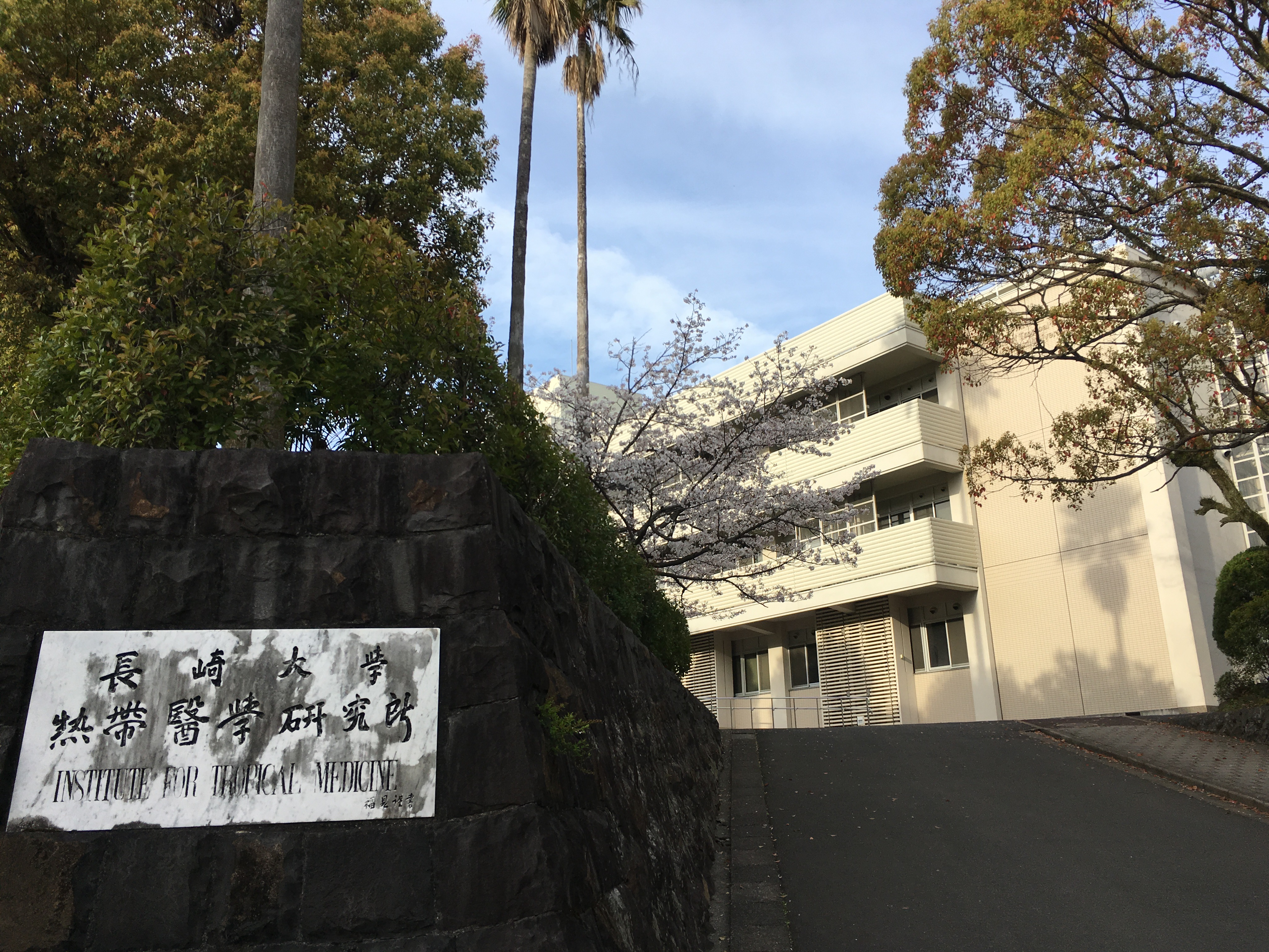 Institute of Tropica lMedicine Nagasaki University.